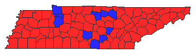 1994 Tennessee Senate special election results by county.